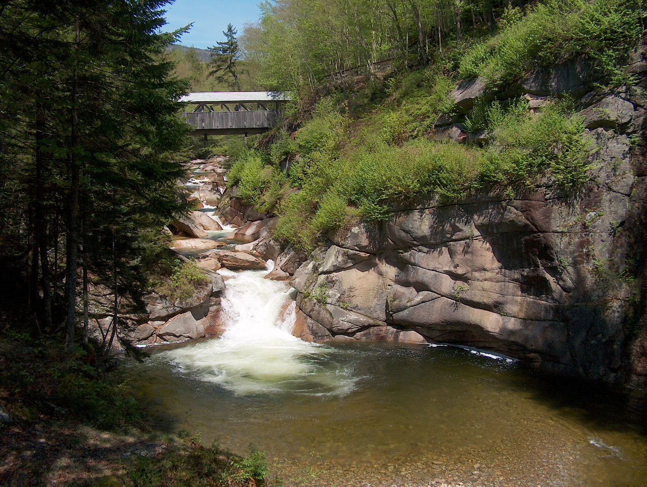 The Pemigewasset River descends through Franconia Notch, New Hampshire. Photo by Ken Gallager, May 25, 2006.